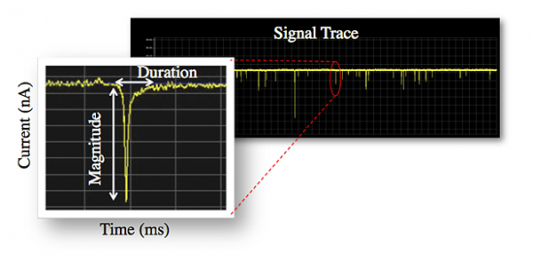 Through Scanning Ion Occlusion Sensing (SIOS) particles crossing a size-tunable nanopore are detected as a transient change in the ionic current flow, which is denoted as a blockade event with its amplitude denoted as the blockade magnitude